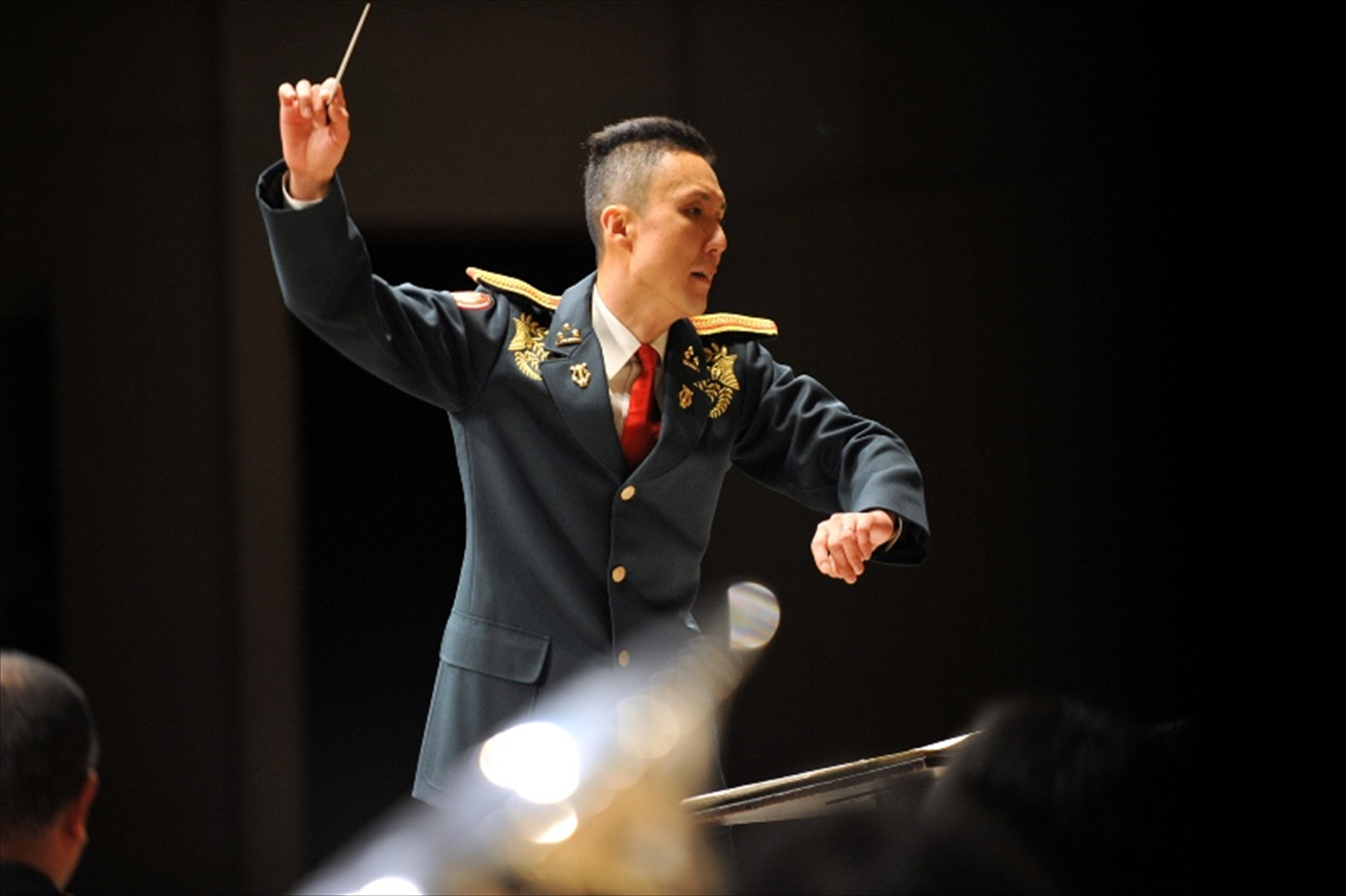 Title 25.2.22～23第６師団定期演奏会 音楽隊長 山下１尉の繊細かつ勇壮な指揮_R.JPG Album Events and Public Relations (イベント・行事・広報活動等) 第３７回第６師団定期演奏会